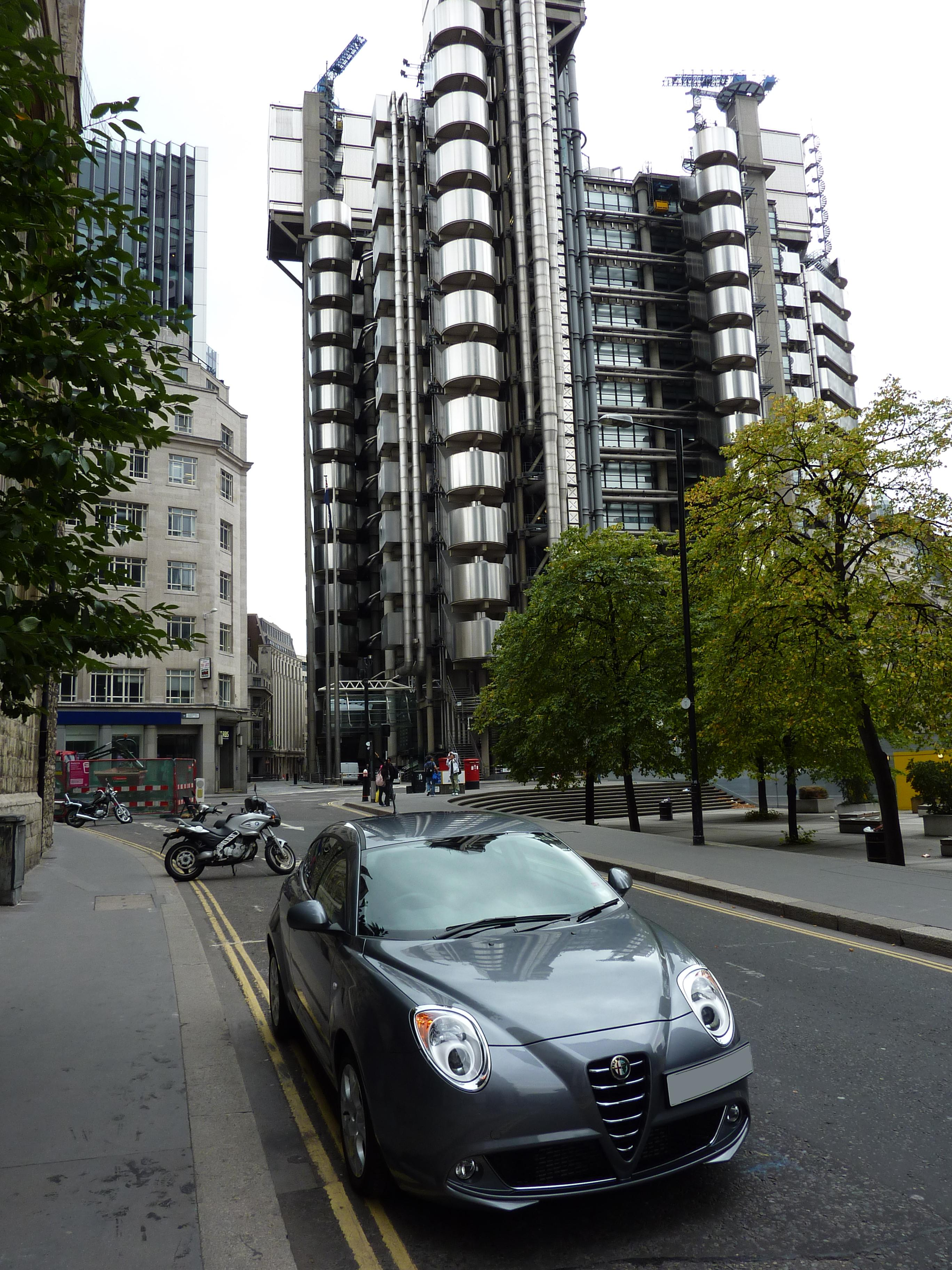 A grey Alfa Romeo Mito in St. Mary Axe, opposite the Lloyd's building in London